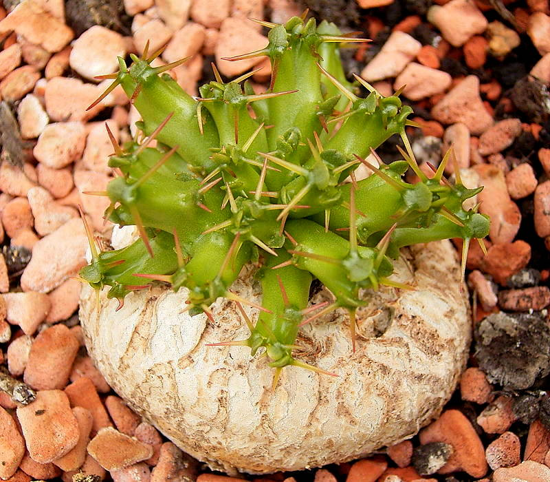 Euphorbia micracantha